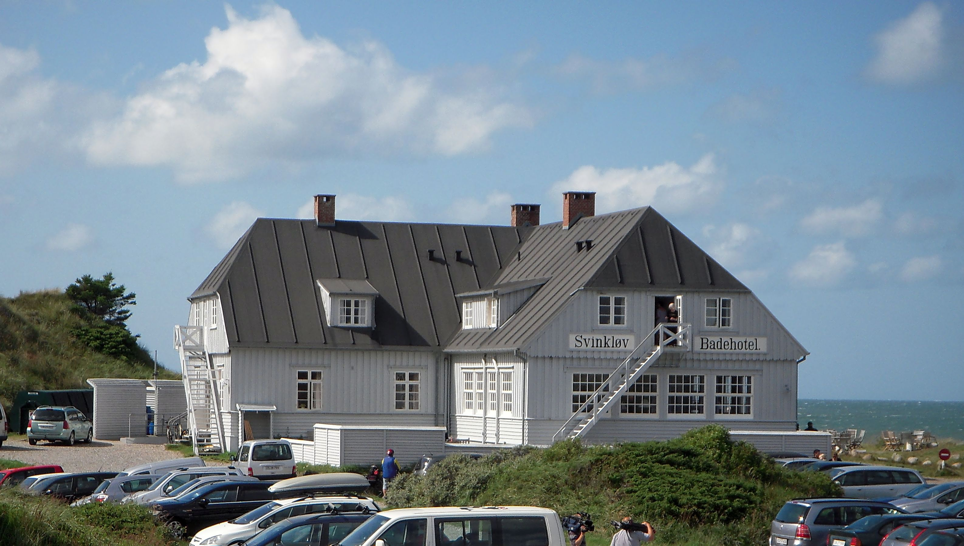 The 'Svinkløv Badehotel' at the Slettestrand, Northern Jutland. Juli 2009.